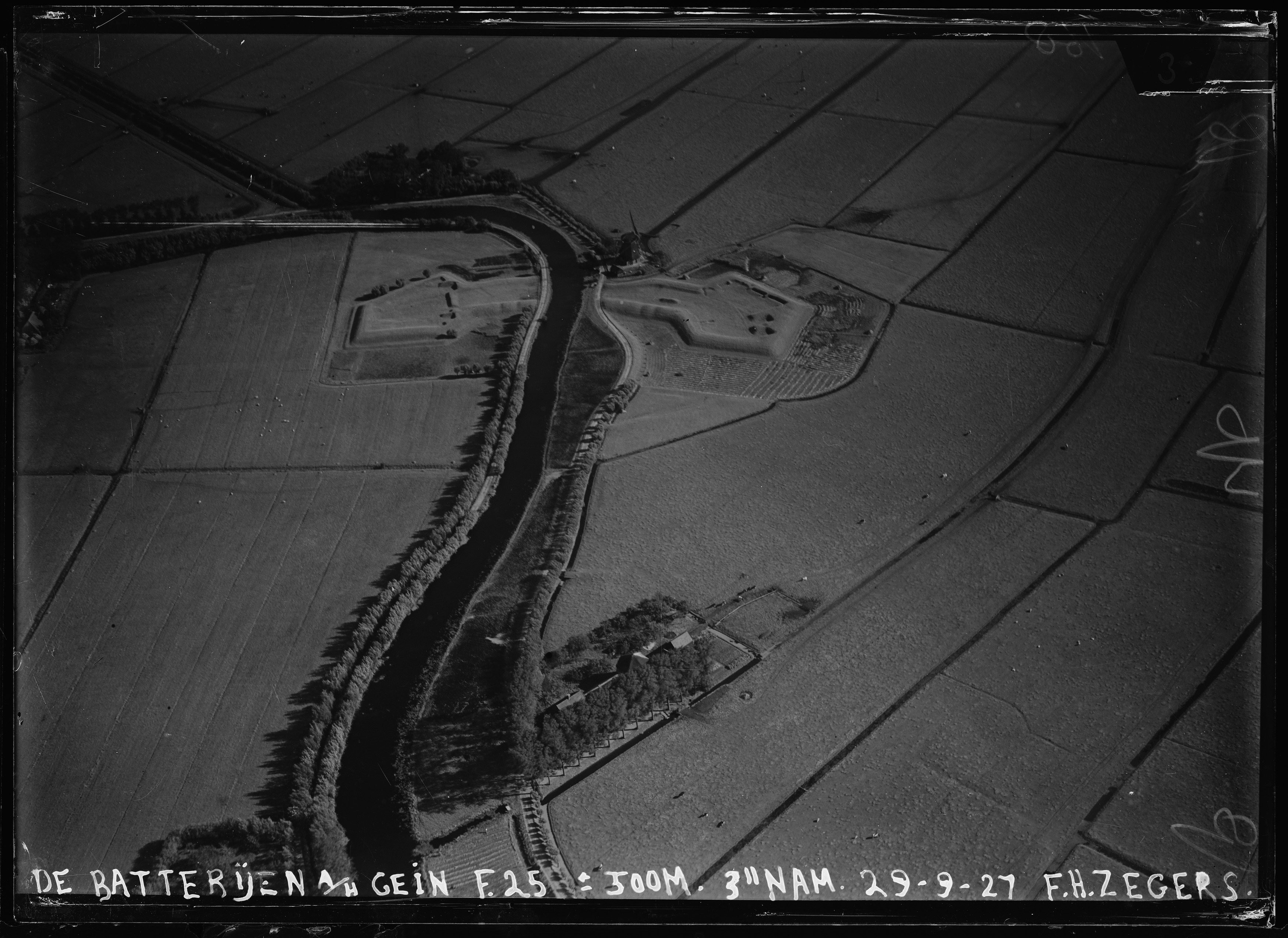 Aerial photograph of Gein, The Netherlands. Batteries on the Gein.